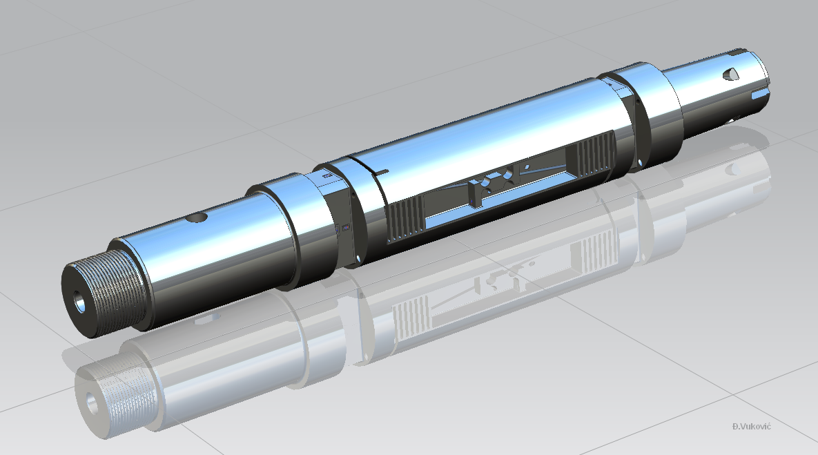 CAD representation of a monoblok (monolithic) six-component wind tunnel balance